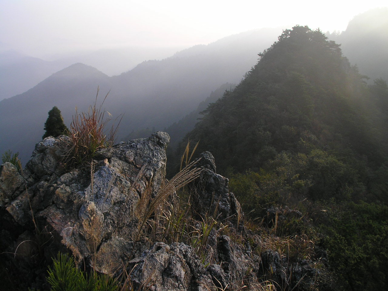 Mount Kogane (Koganegatake)